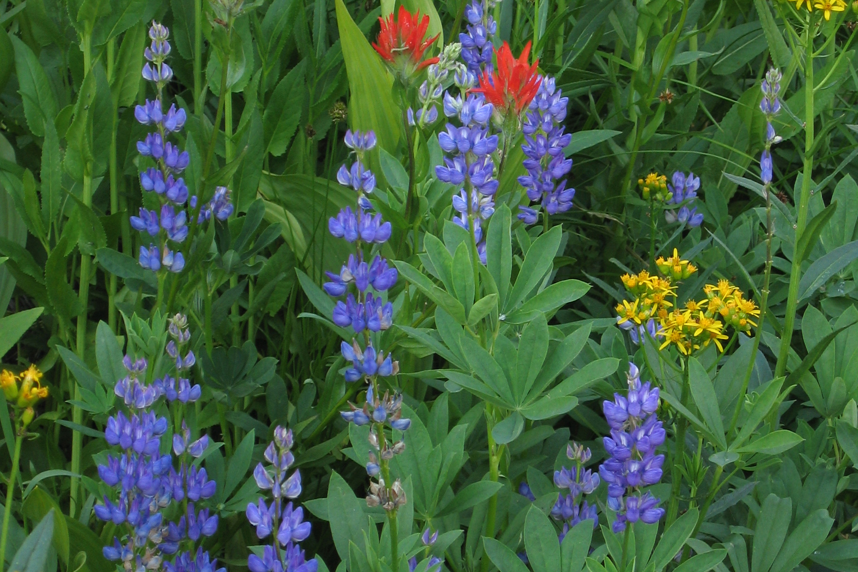 Clump of broad-leaved lupine (Lupinus latifolius), on stream bank at 10,350ft in Little Lakes Valley, John Muir Wilderness, California.